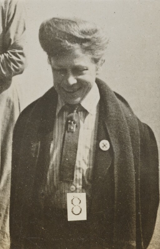 An image created by the United Kingdom's Criminal Record Office and then made available at the UKs National Portrait Gallery. These date from c.1914 when the suffragettes had an arson campaign before WW1. Maud Mary Brindle was from Carlisle